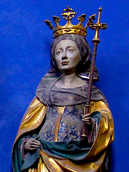 The sculpture representation of holy Wuna of Wessex in the minster holy Walburga in Eichstatt.